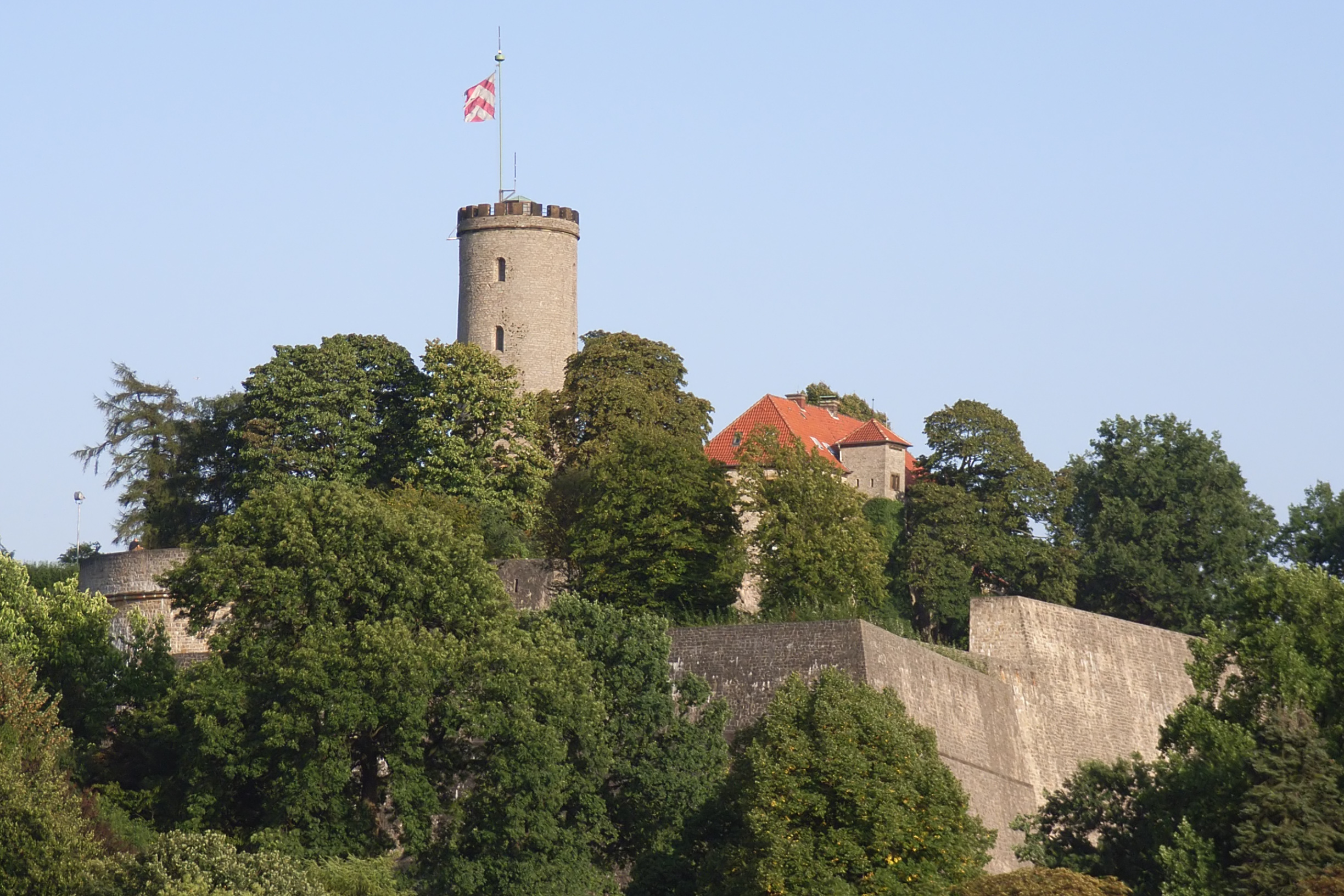 Germany, Bielefeld: Sparrenberg Castle (commonly named “Sparrenburg”)